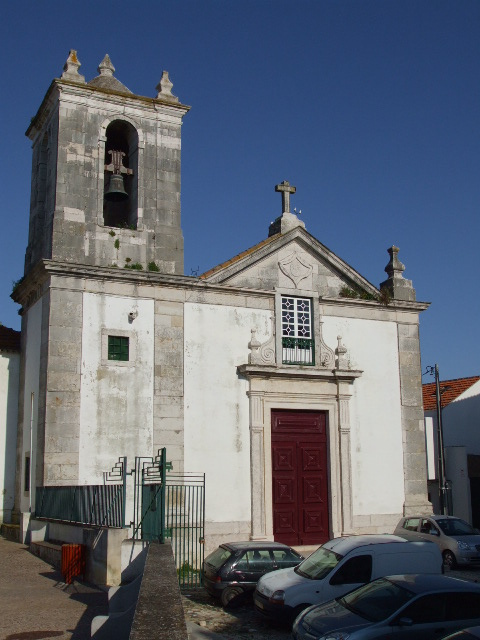 Church of Santiago, a XII century church in Almada